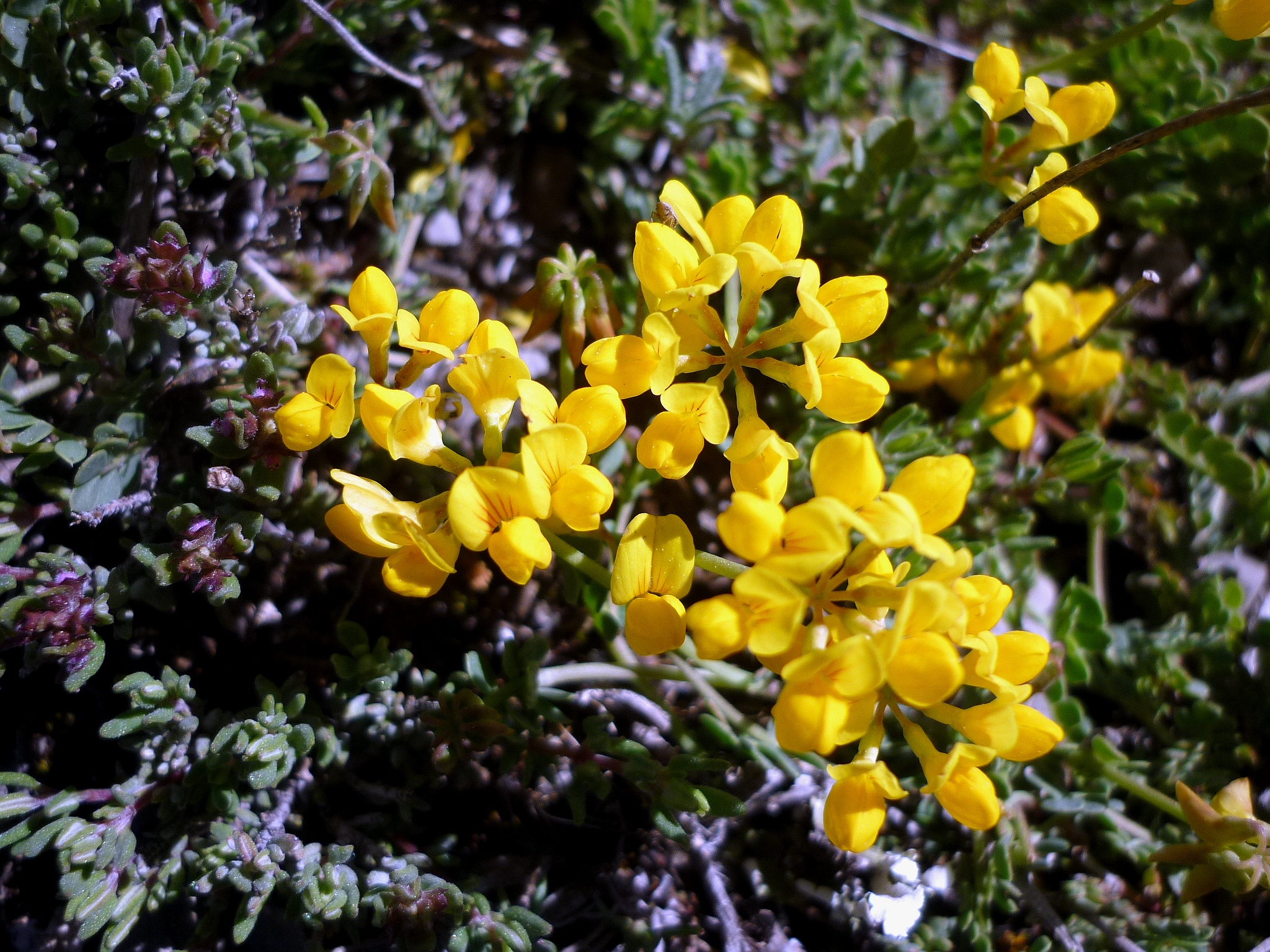 Hippocrepis comosa. Near Roc de Galliner, in l'Alzina d'Alinyà (Alt Urgell-Catalunya). To 1.380 m. altitude